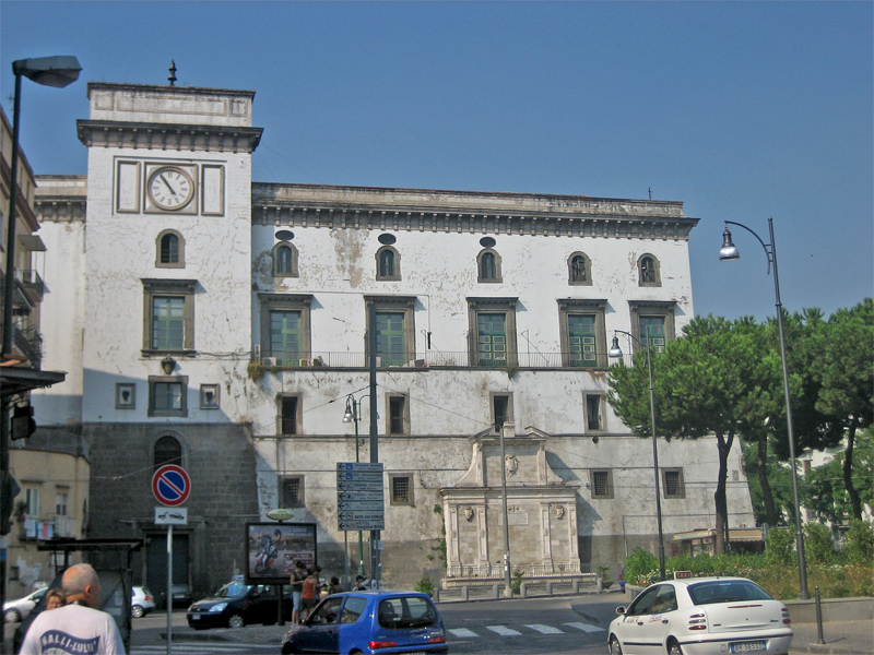 Castel Capuano, Naples, Italy